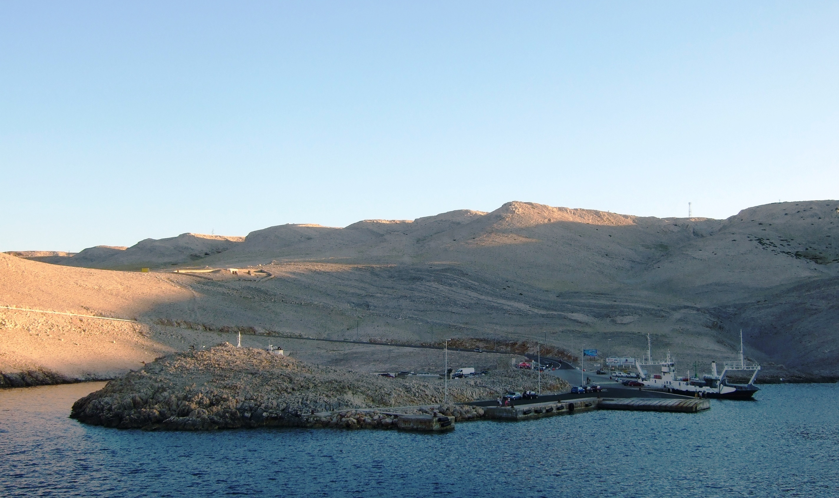 Žigljen harbor (Islan of Pag - Croatia), summer 2010